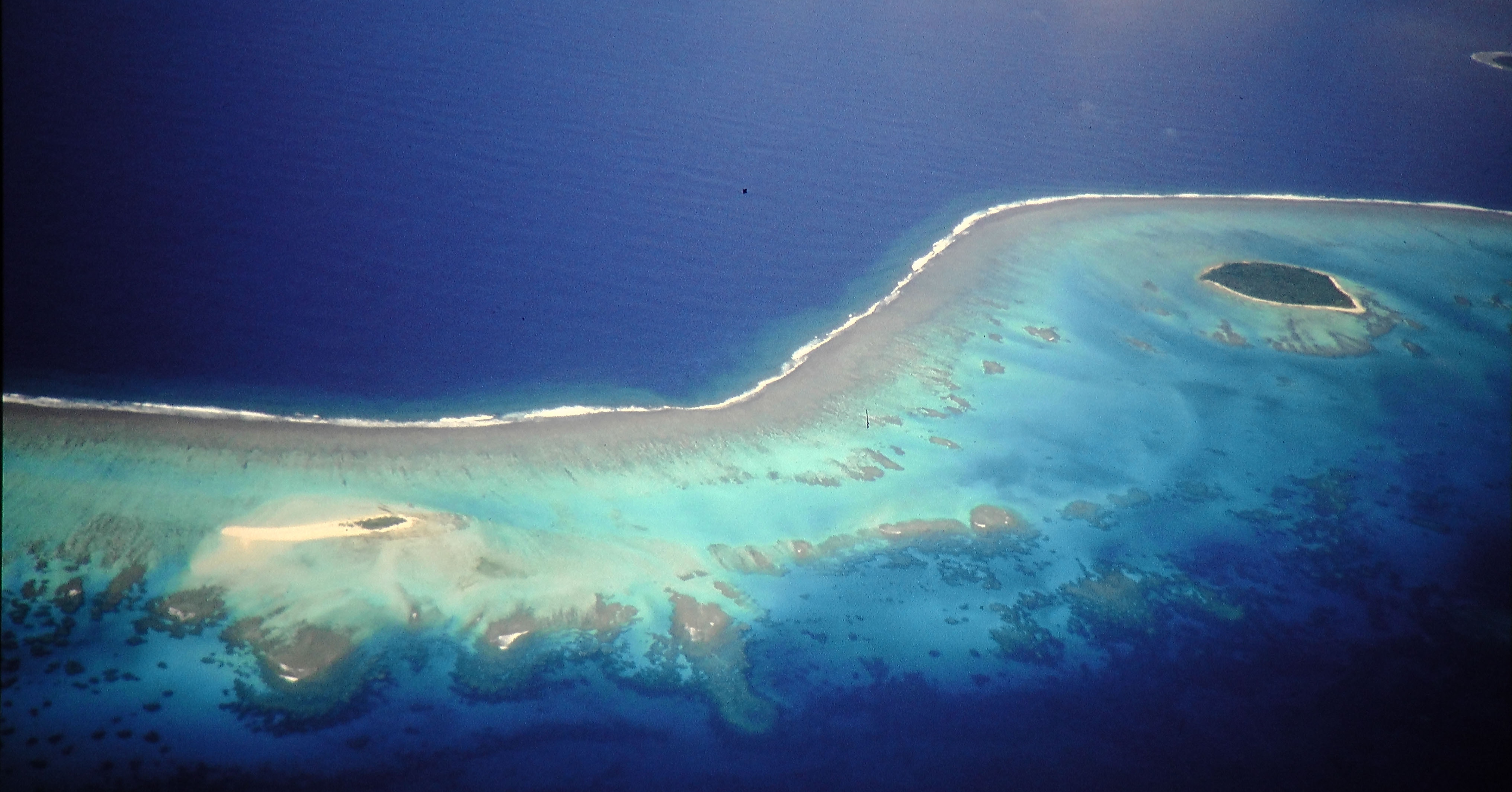 The reef of Tongatapu lagoon and the island of ʻAtā' (upper right corner) (not to be confused with' Ata island)